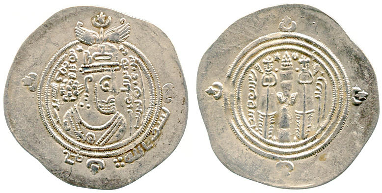 Arab Sasanian Coin - Khosrow II Silver Drachm with the insignia of al-Muhallab ibn Abi Sufra Drachm - minted in Bishapur in AD 696 - weight 3.93g - diameter 32,5 mm